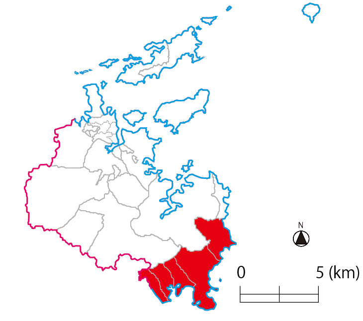 This map indicates the Nagaoka junior high school and Kodo elementary school district.